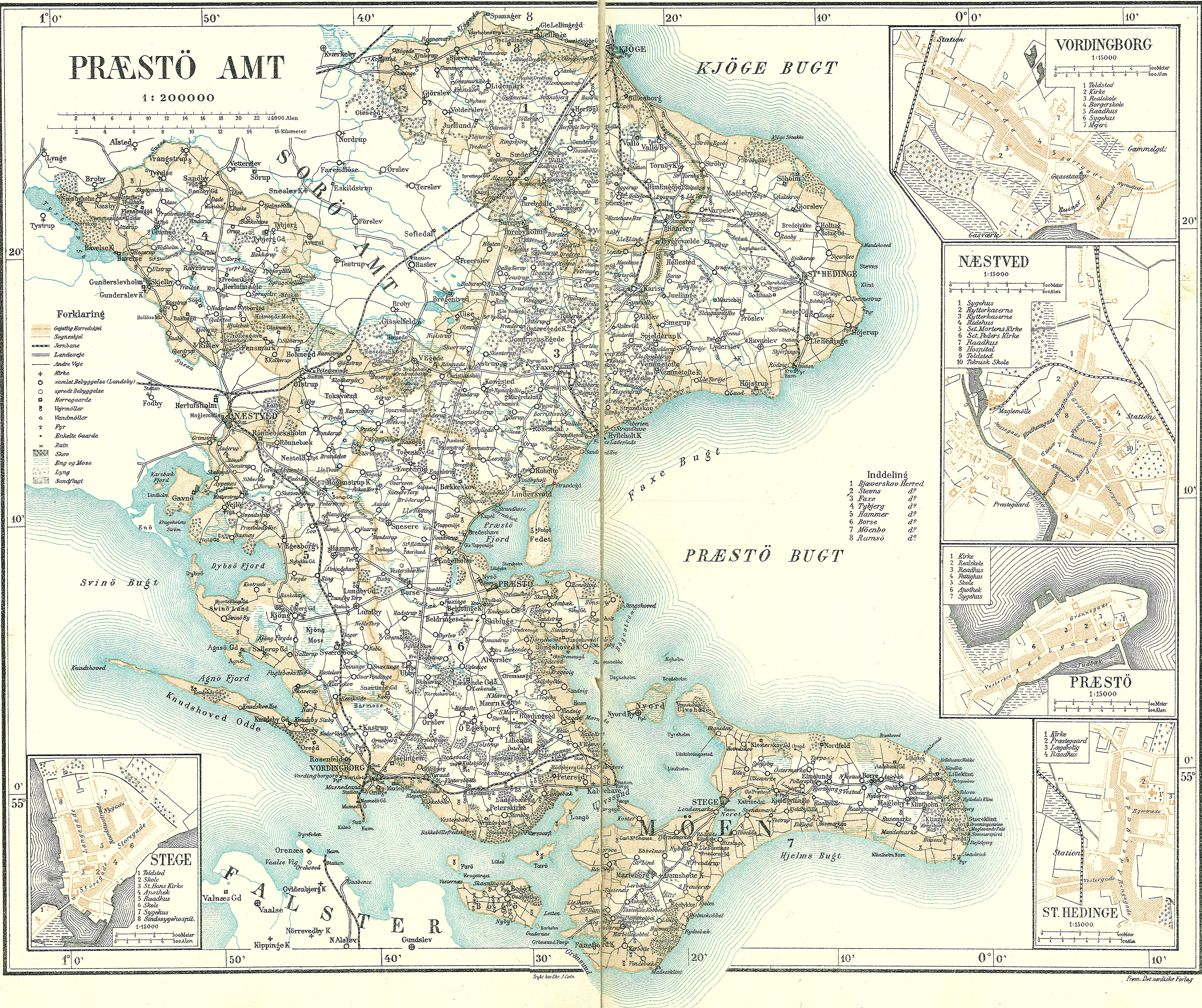 Map of Præstø County in Denmark